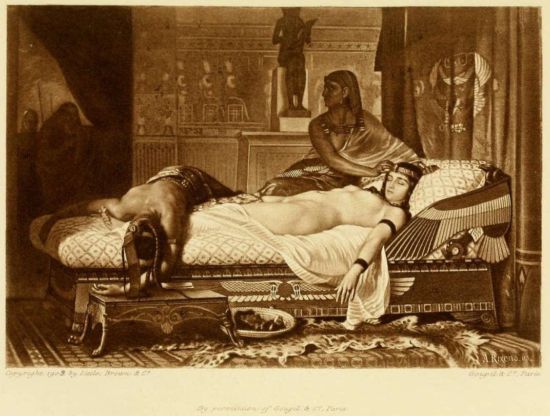 Jean André Rixens, The Death of Cleopatra; photo by Goupil